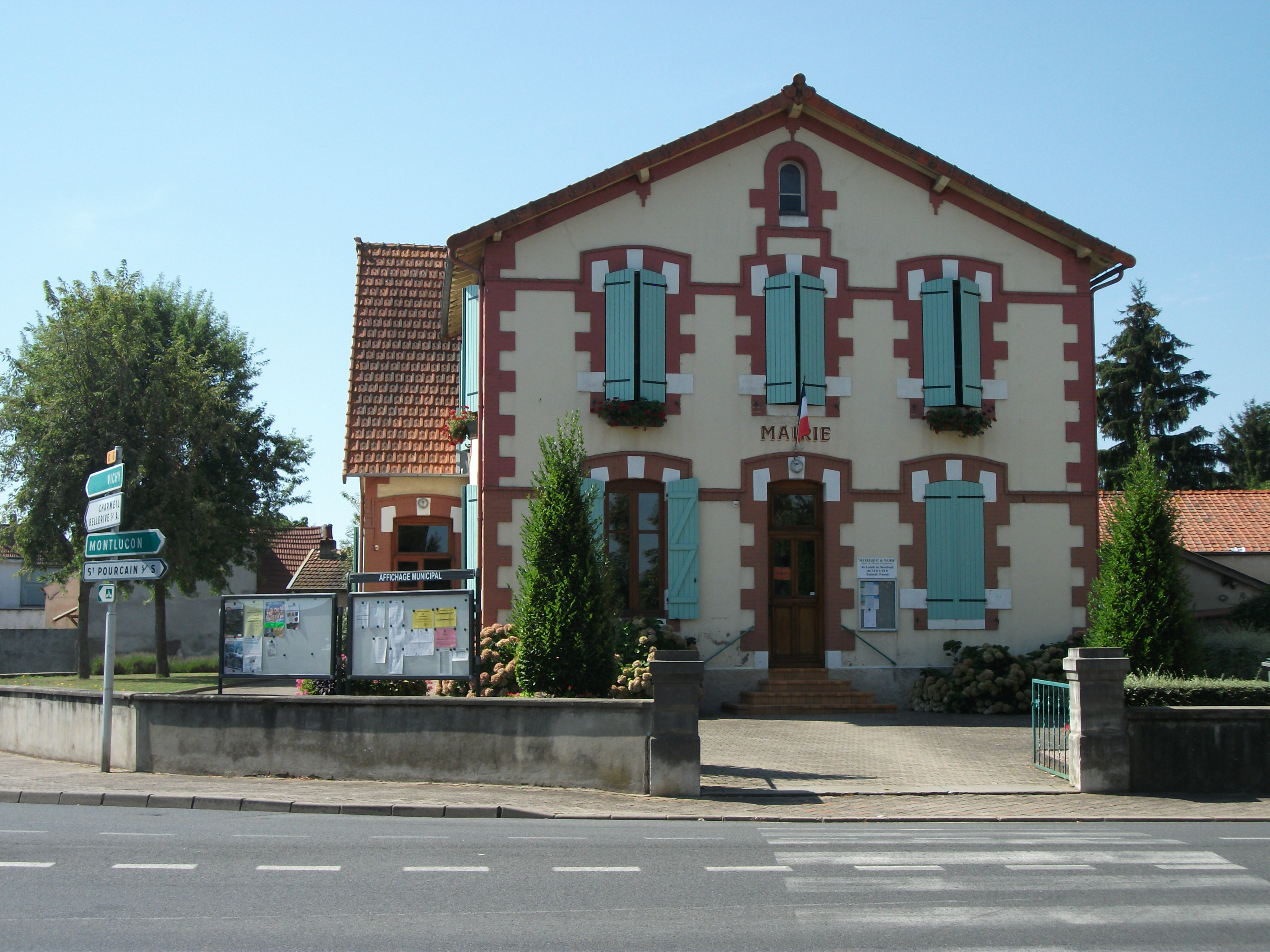 Town hall of Saint-Rémy-en-Rollat [8616]